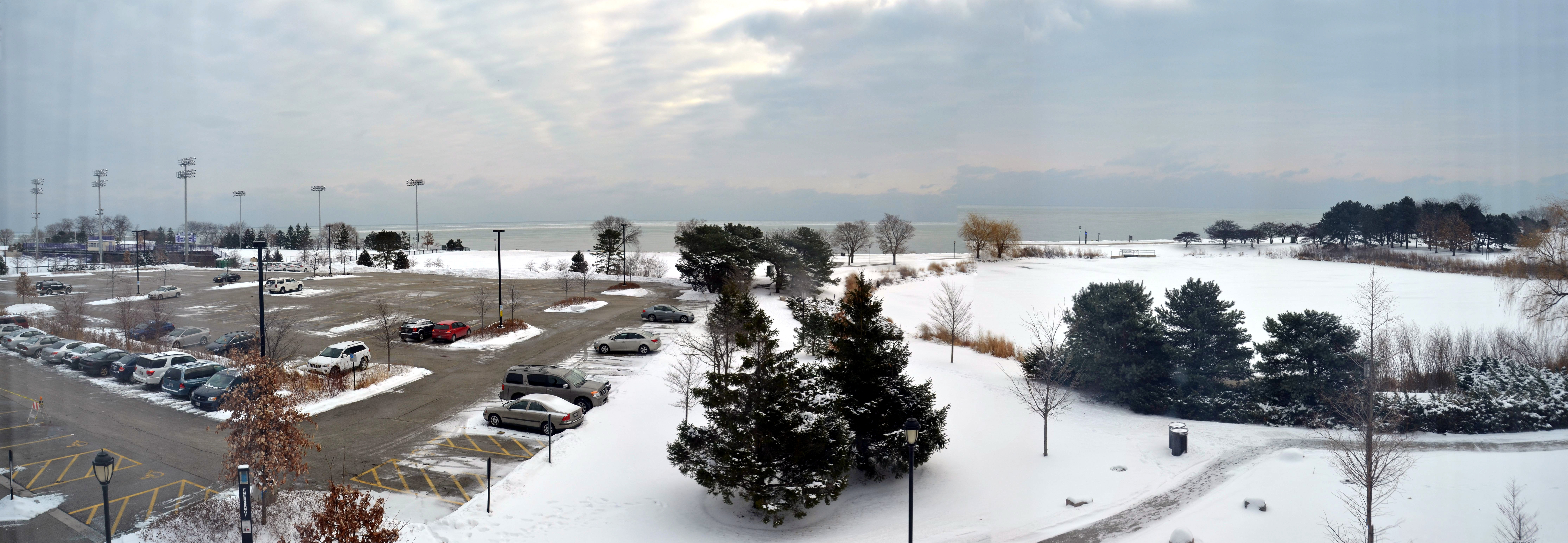 View of Lake Michigan from 3rd floor dorm of Allen Center, Kellogg School of Business